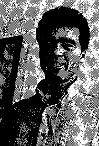 Mustafa Ait Idr, one of the Algerian Six From